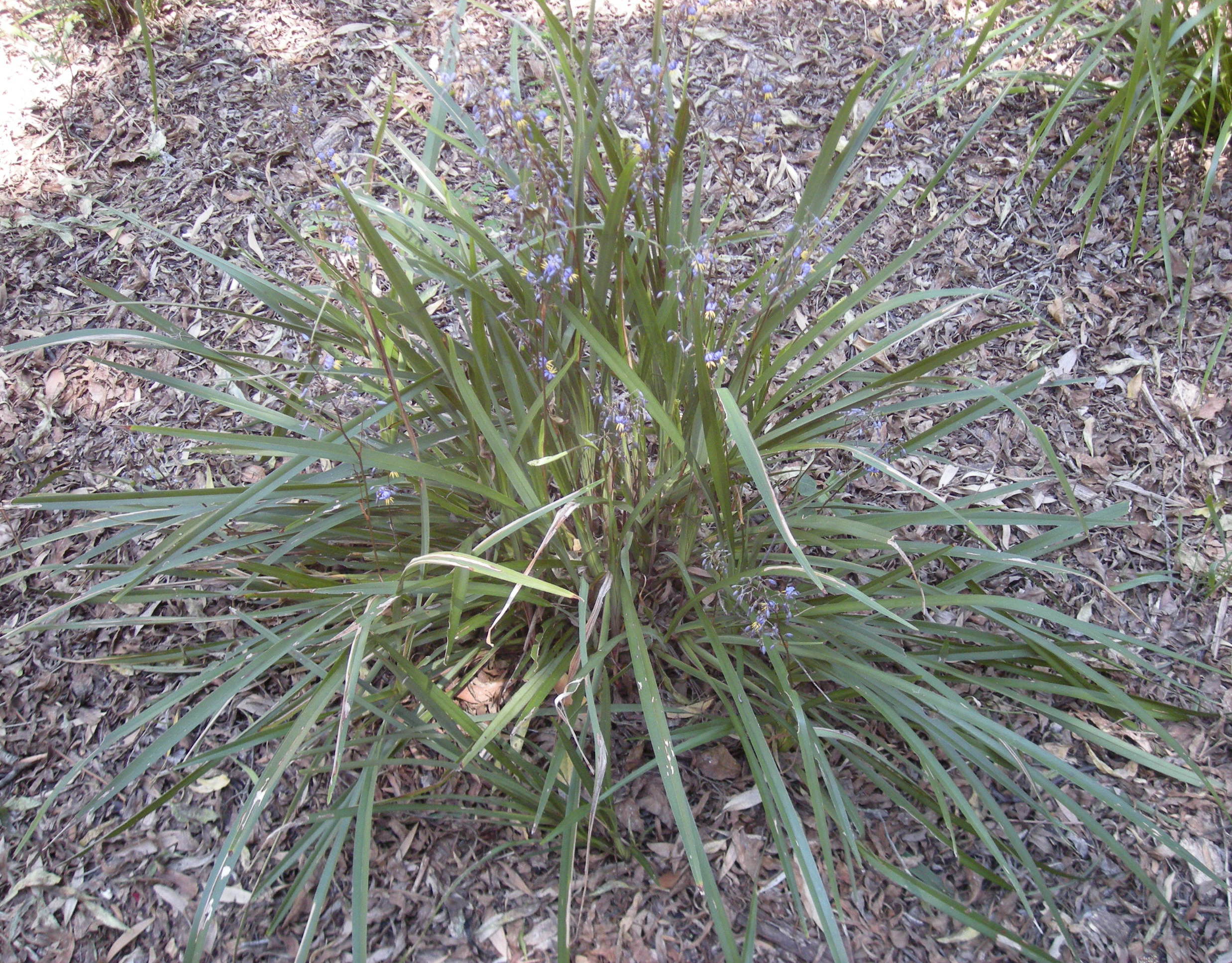 Dianella caerulea plant in flower, Mount Archer National Park, Rockhampton